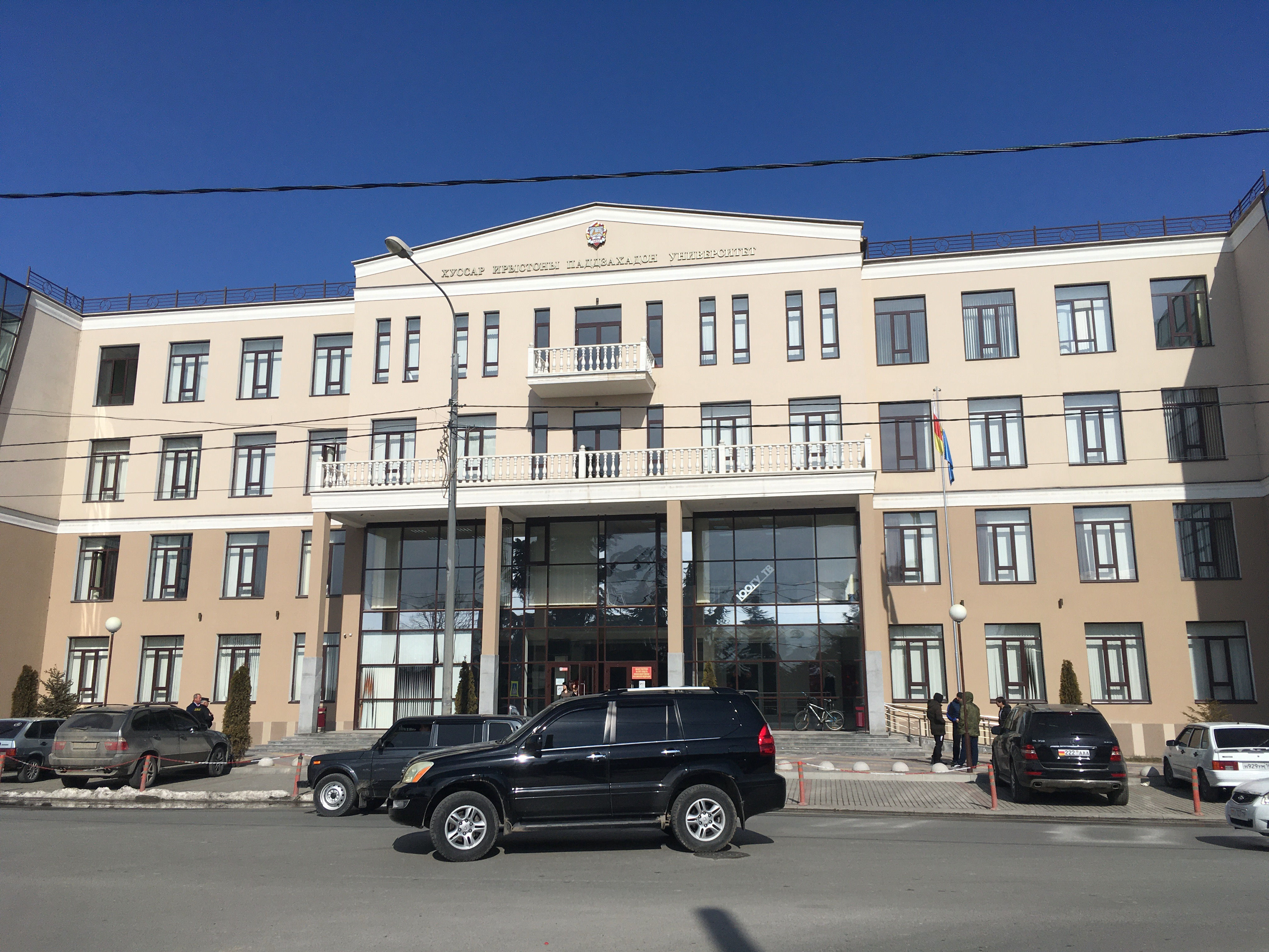 South Ossetia State University in Tskhinval, main building